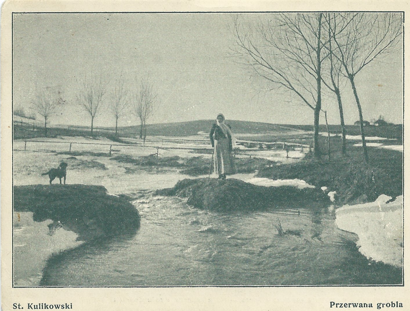 "Przerwana grobla" ("Broken Dike") - postcard of photo dated ca. 1900